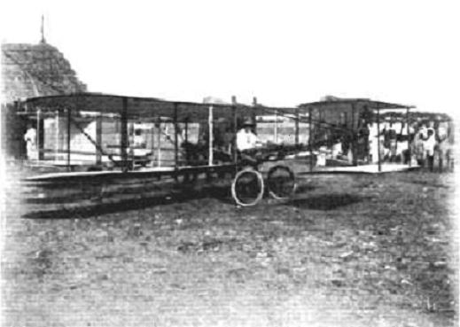 This is the Biplane built and designed by Mr. Giacomo D'Angelis in year 1910, Mr D'Angelis whos the first Man to fly in india , year 1910